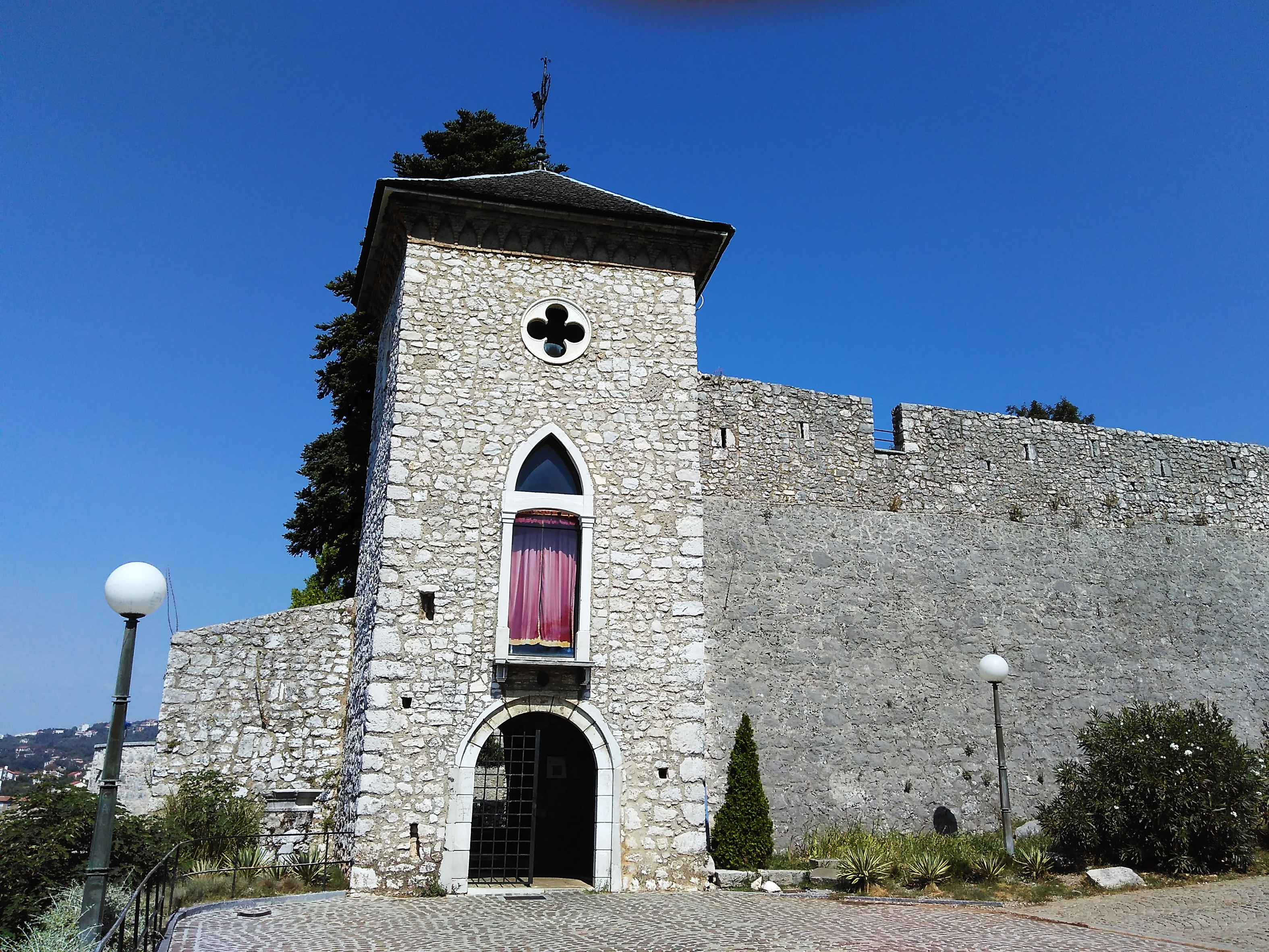 Trsat Fortress in Rijeka, Croatia. This is a a photo of a cultural heritage in Croatia with ID:P-5528